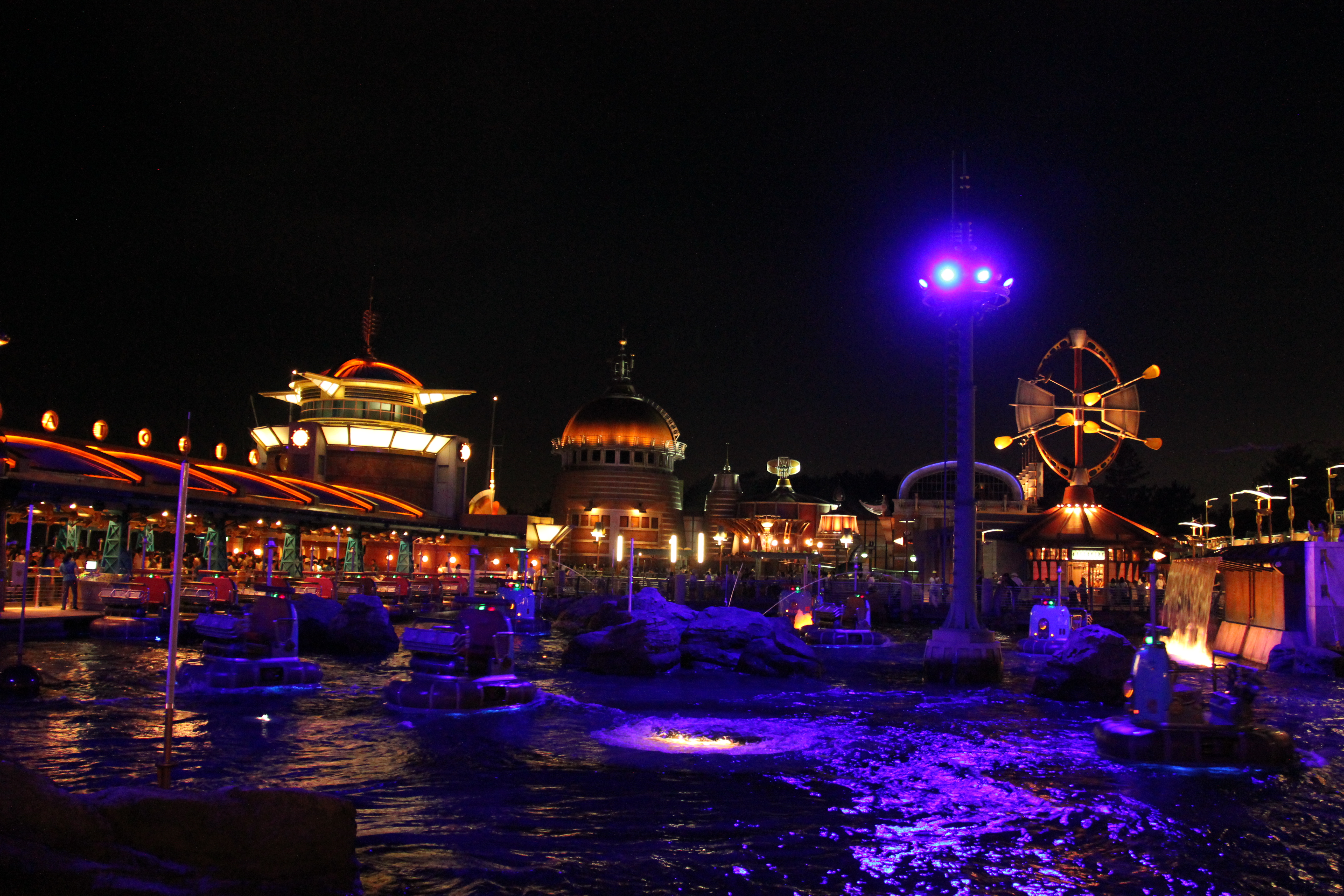 Tokyo DisneySea